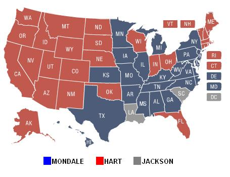 1984 Democratic presidential primaries by state winners